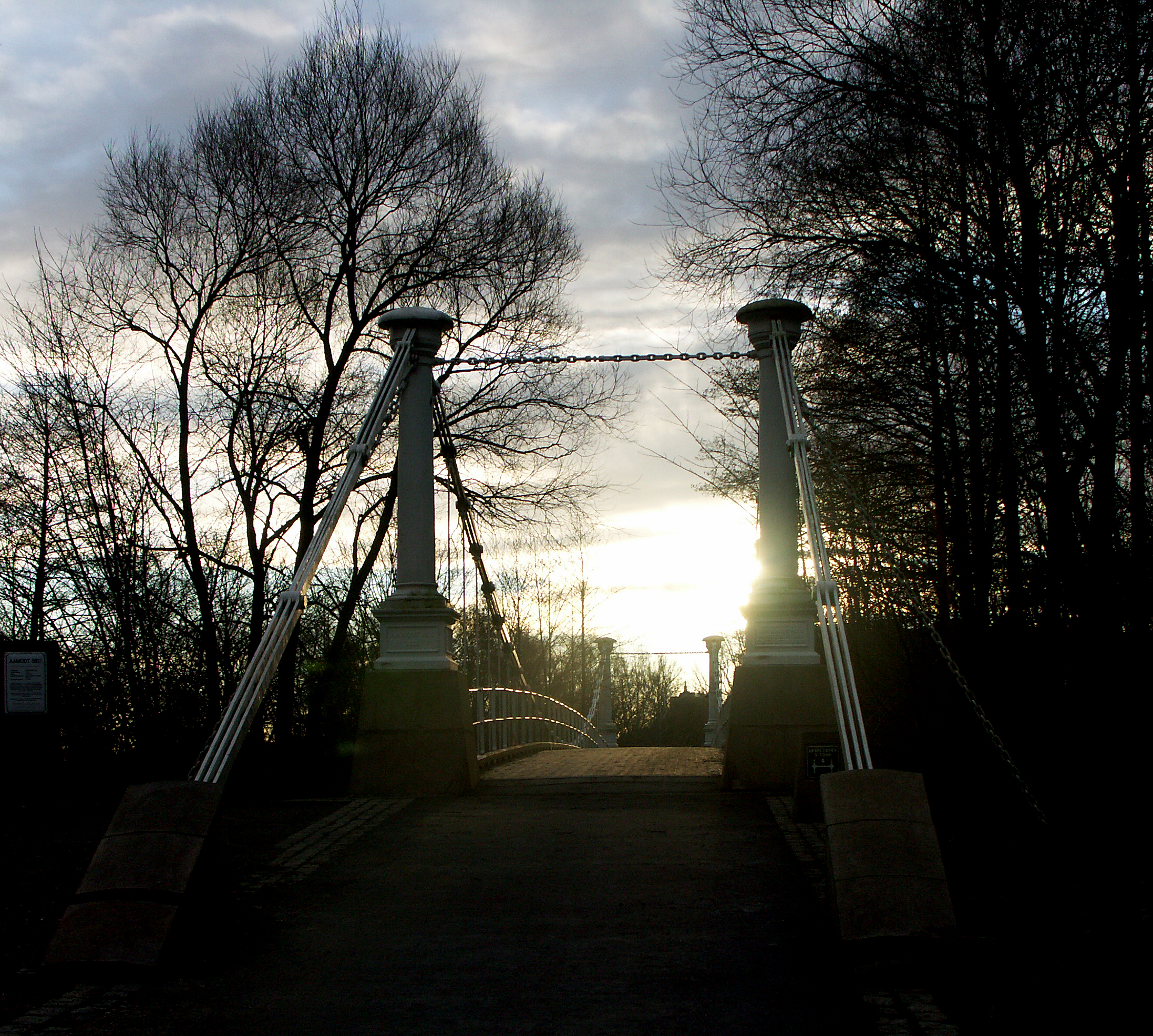 Aamodt bru was originally built in the early 1850's and moved in 1962 to river Aker in Oslo.